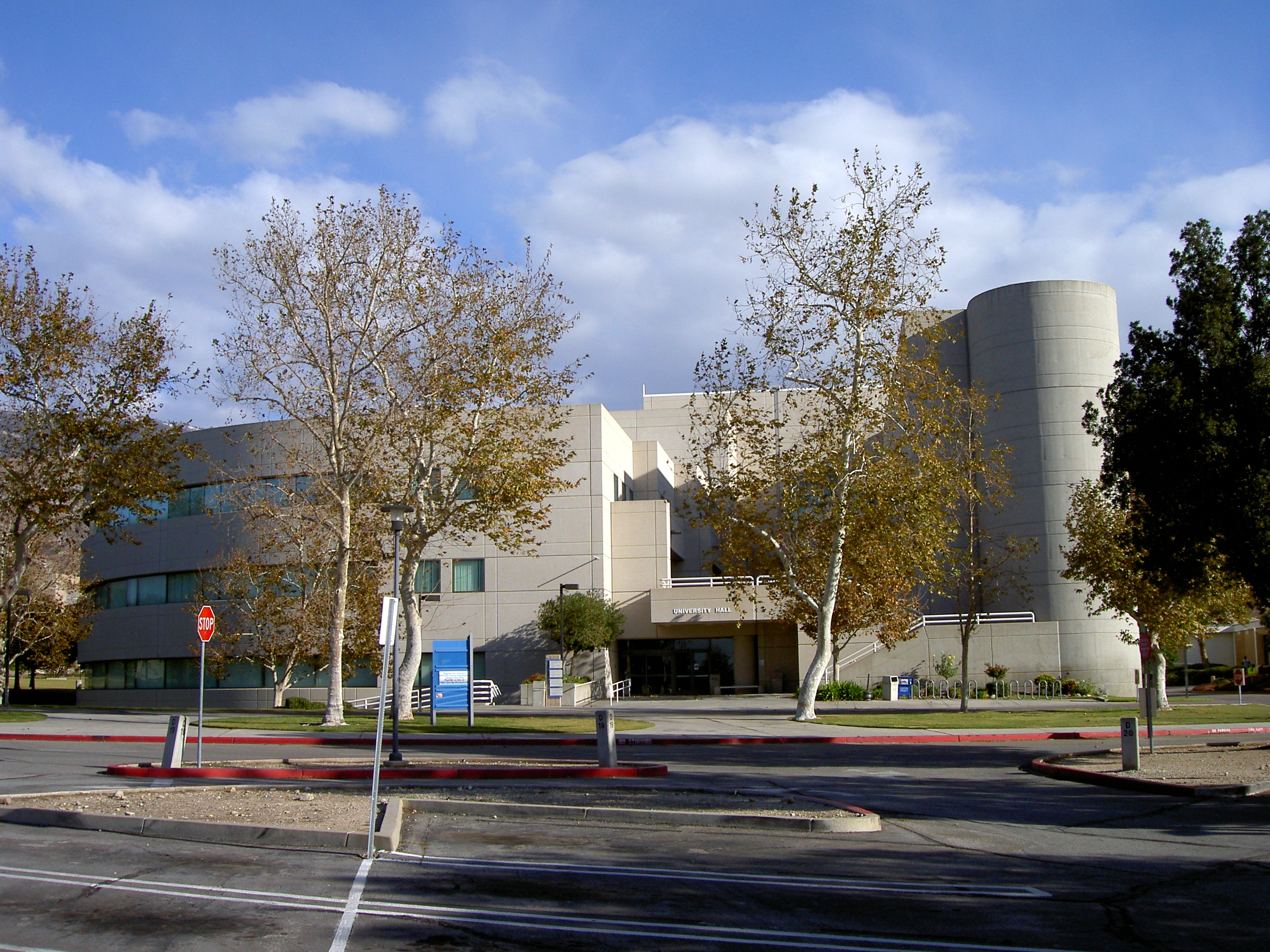 CSUSB